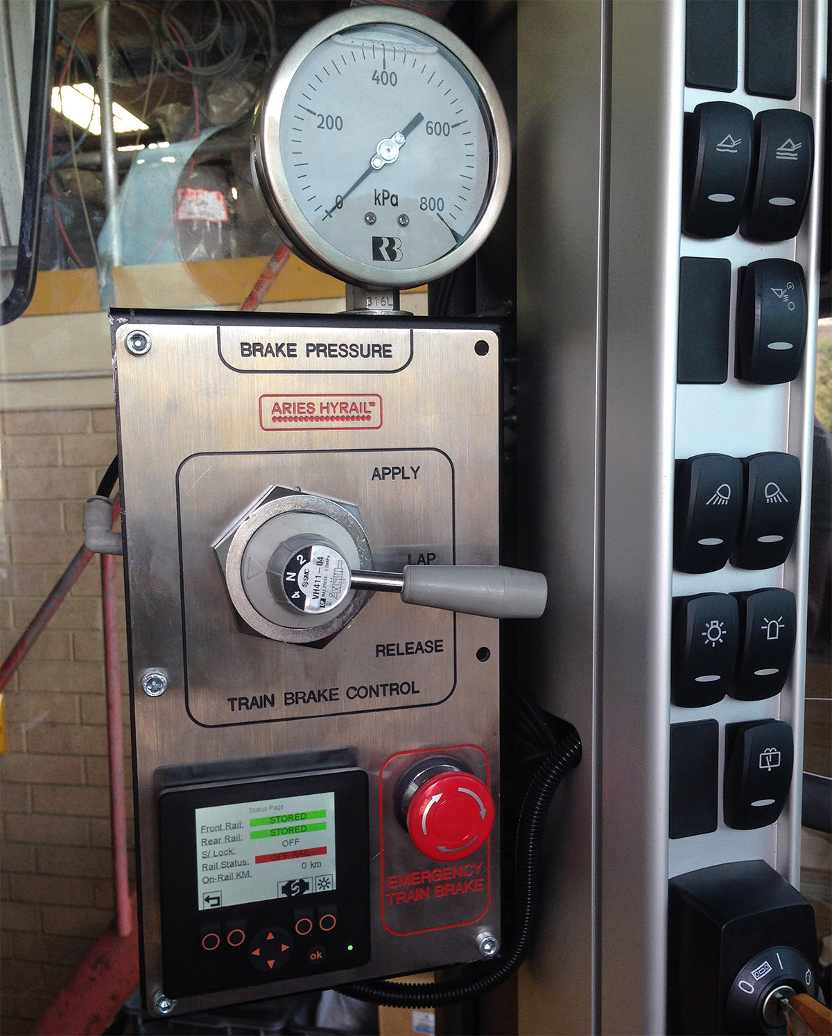 Cabin mounted train brake control panel fitted to a Volvo L70F shunting vehicle